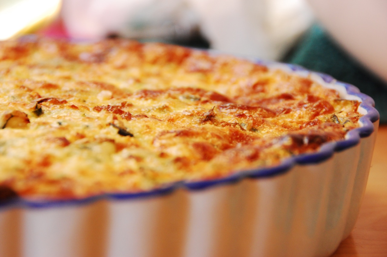 Grandma's Quiche in bakeware pan.